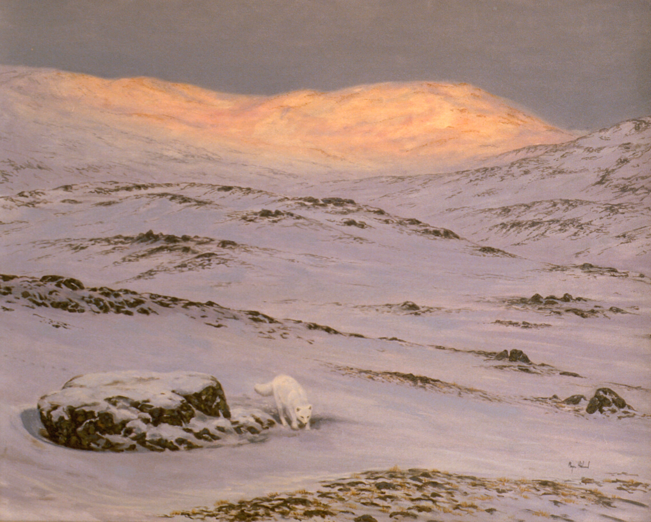 "Arctic fox on winter mountain" (Norway).